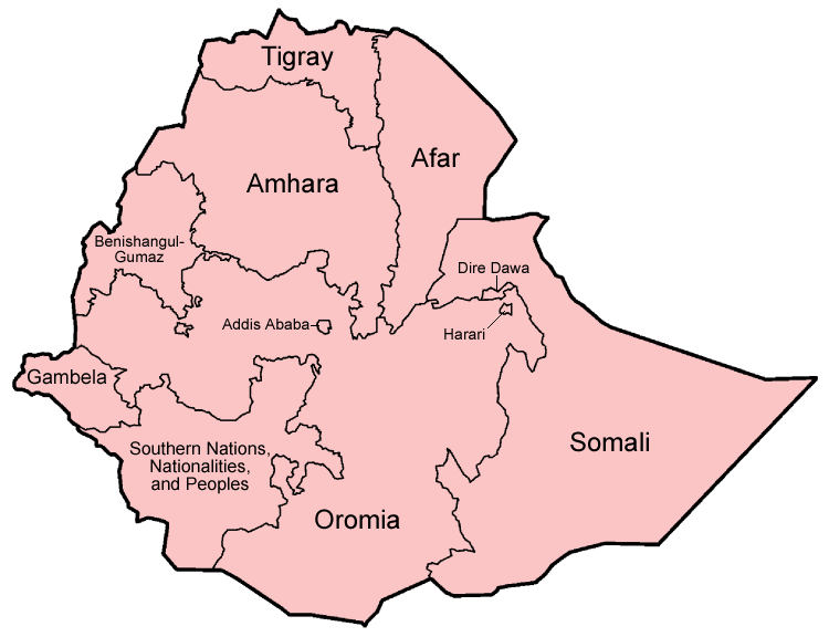 Map of the regions of Ethiopia in English. Made by User:Golbez.